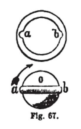 Girdled_bullet_and_twin_rifle_groove, as used by the British Brunswick rifle.